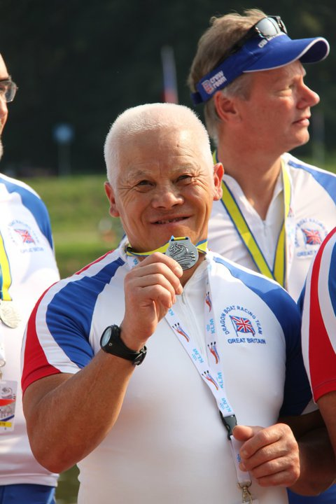 Richard Wang of Team GB, Bronze medallists in the Grand Dragons 500m at the 2010 EDBF Dragon Boat Racing European Championships in Amsterdam, Netherlands.